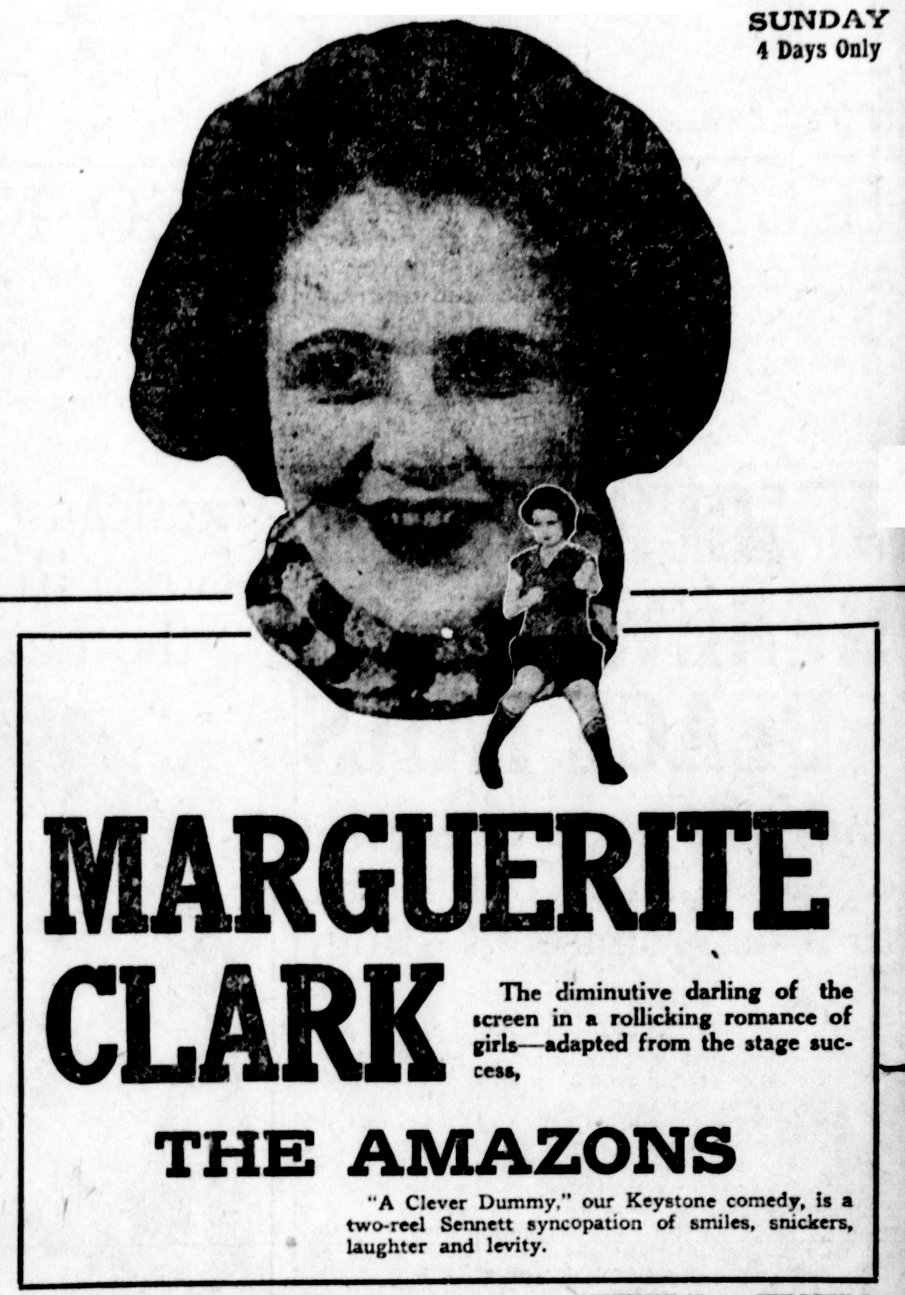 The Amazons was a 1917 American silent comedy film directed by Joseph Kaufman and starring Marguerite Clark, Elsie Lawson, and Helen Greene. This is a newspaper advertisement.